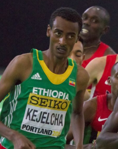 Yomif_Kejelcha during 2016 IAAF World Indoor Championships in Portland